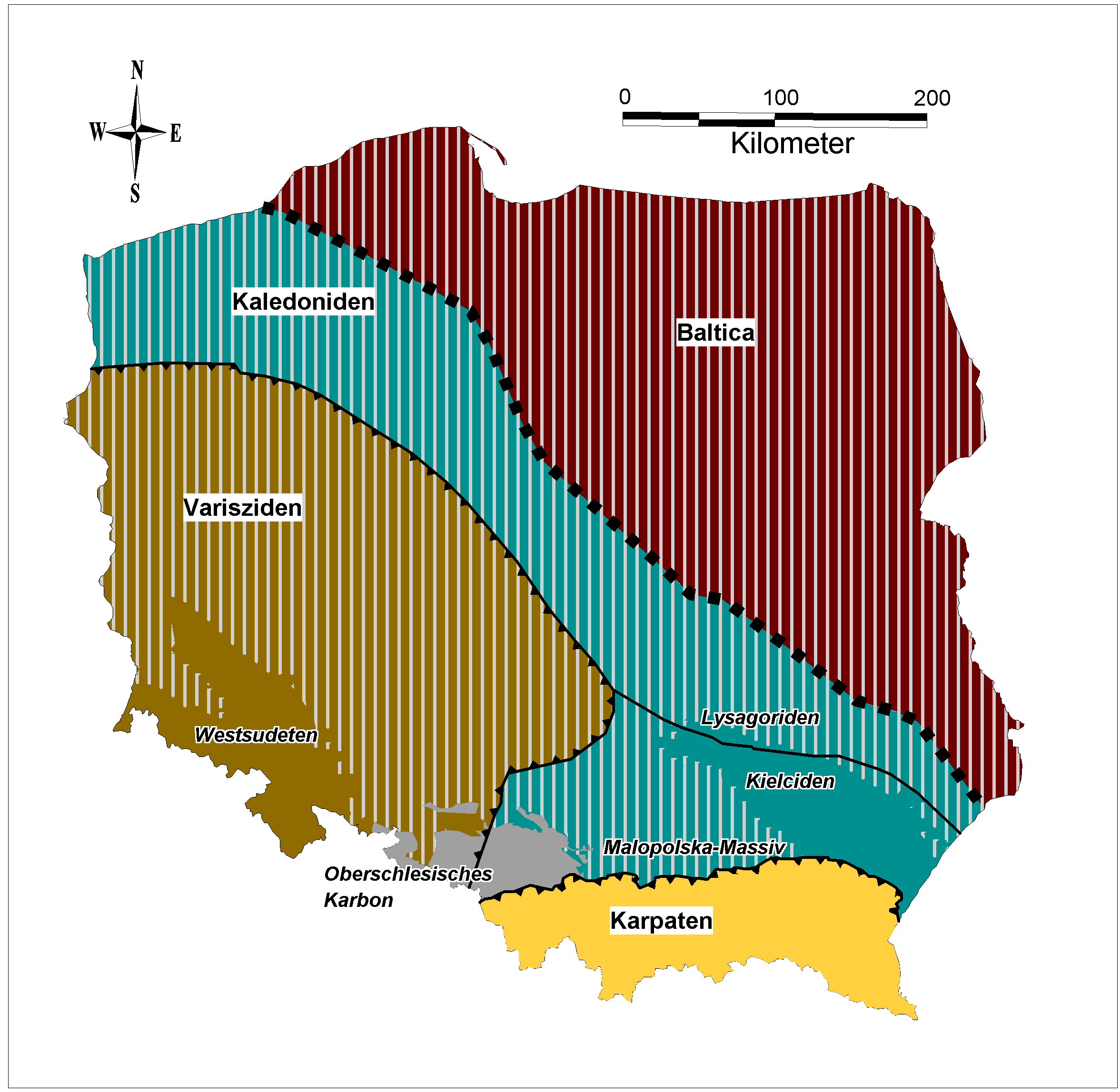 Geological map of Poland, cover sequences stripped off (shown as vertical hatching), based on the Geological Map of Poland without Cainozoic deposits, scale 1:1,000,000, ISBN 83-86986-45-X and Roland Walter: Geologie von Mitteleuropa, 7. ed, p. 125, Schweizerbart, Stuttgart 2009.